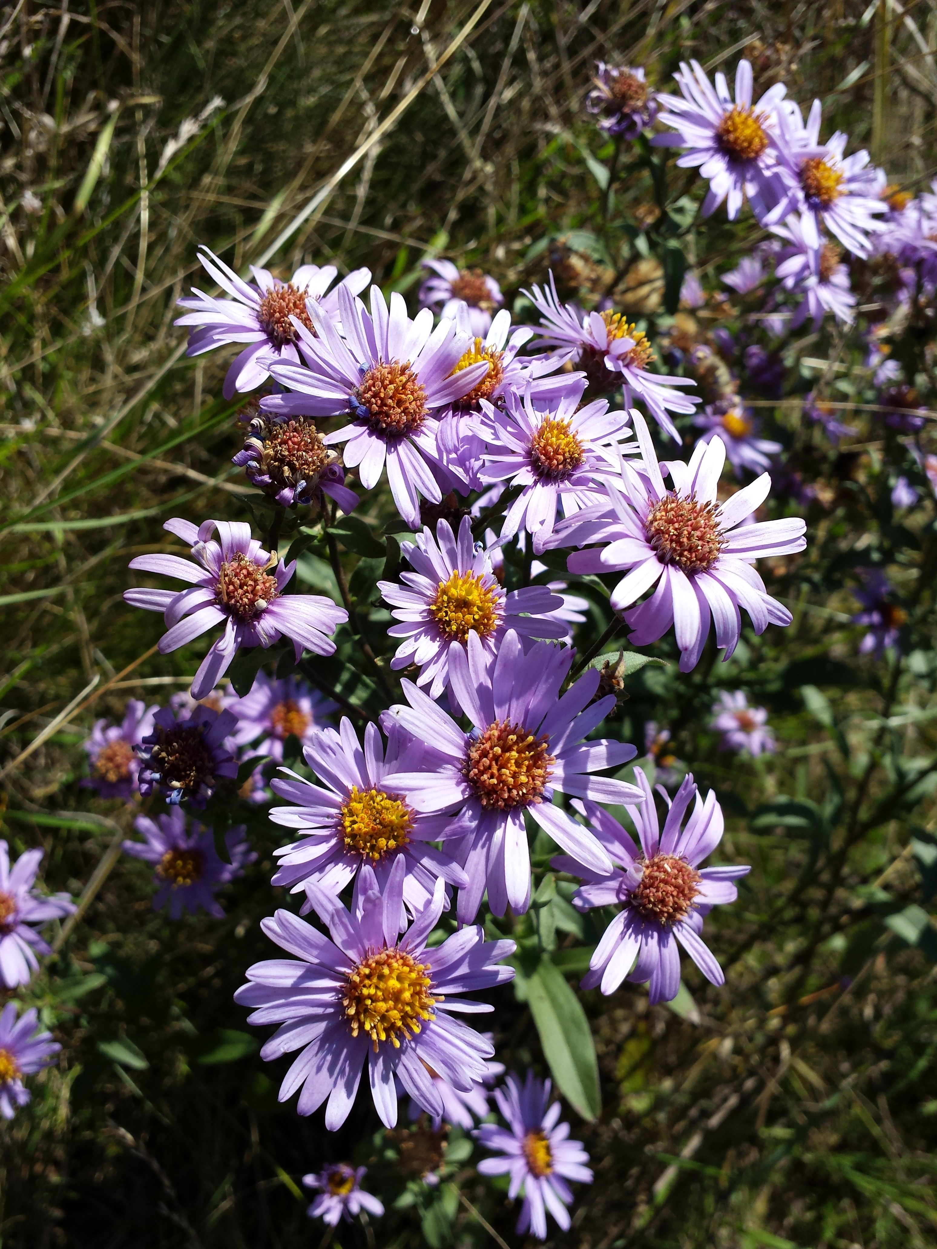 Florescence Taxon: Aster amellus (sensu Fischer et al. EfÖLS 2008) Location: Gebmannsberg, district Korneuburg, Lower Austria - ca. 300 m a.s.l. Habitat: dry grassland